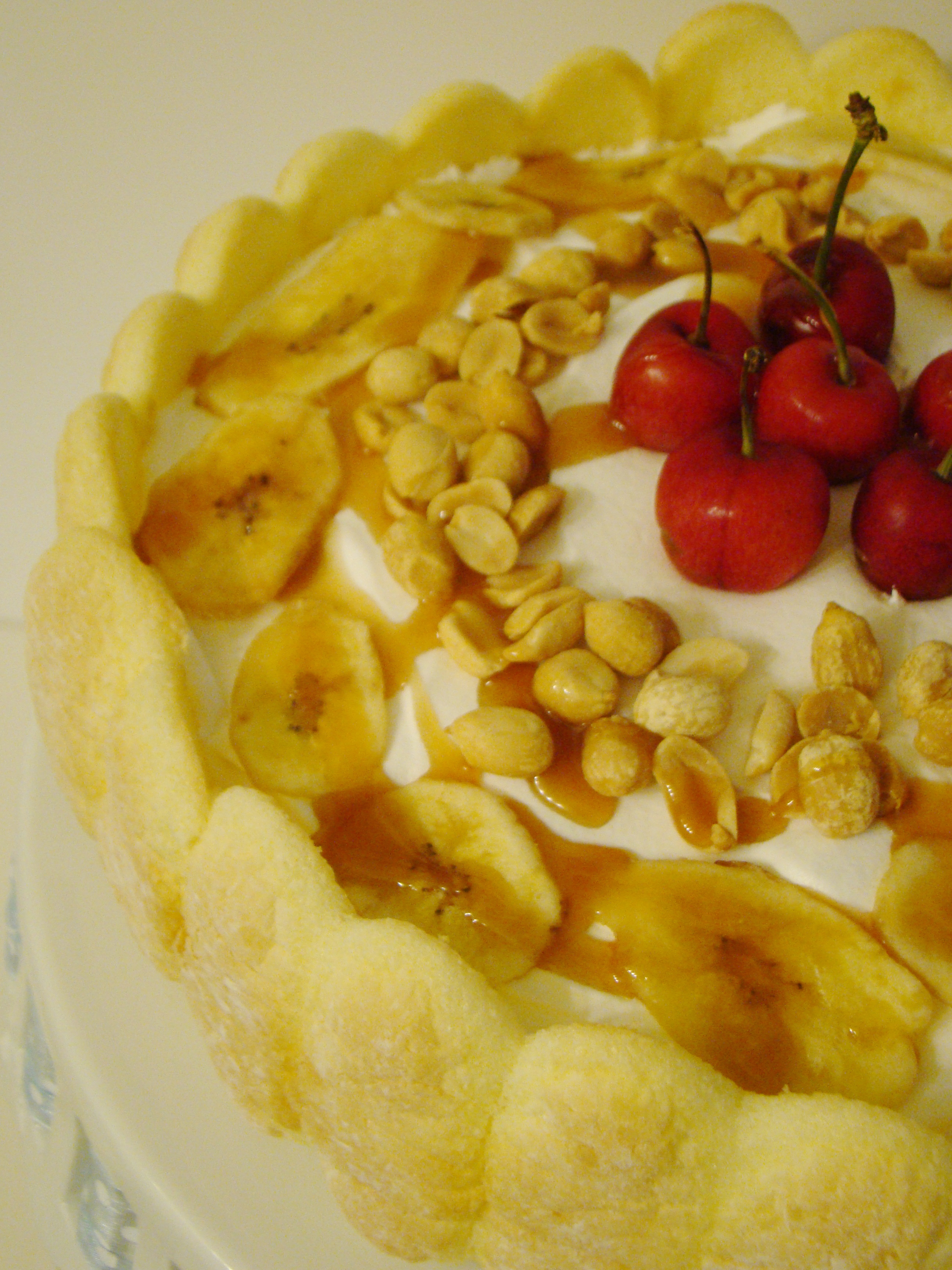 Banana Split Charlotte. See also File:Banana Split Charlotte, No Cookie.jpg.